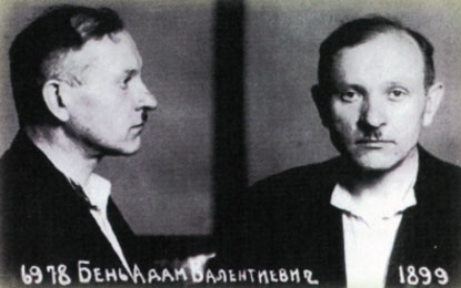 Adam Bień (1899-1998) –Polish lawyer and politician. In 1945 arrested by Soviet NKVD, sentenced in a show Trial of the Sixteen in Moscow (June 1945) for five years of imprisonment, in 1949 released. Official NKVD photo from Bień file after arrest 1945.